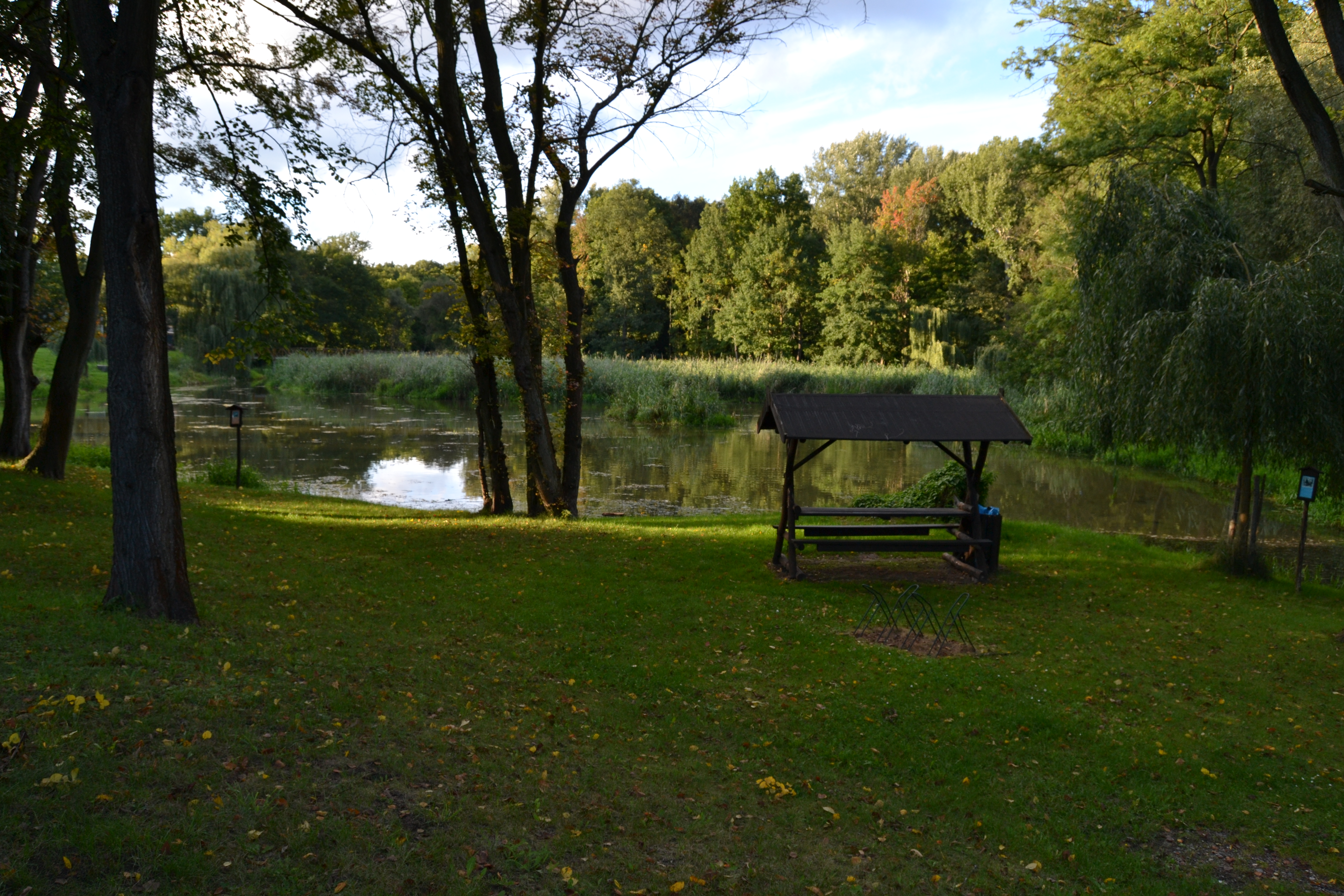 Manor house, park (1830 by Peter Joseph Lenné) etc. in Gorgast